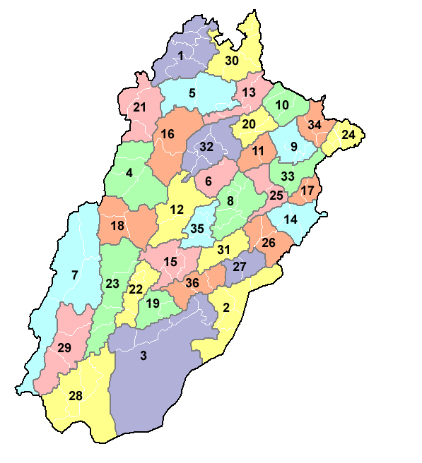 36 Districts of Punjab, Pakistan. 1. Attock 2. Bahawalnagar 3. Bahawalpur 4. Bhakkar 5. Chakwal 6. Chiniot 7. Dera Ghazi Khan 8. Faisalabad 9. Gujranwala 10. Gujrat 11. Hafizabad 12. Jhang 13. Jhelum 14. Kasur 15. Khanewal 16. Khushab 17. Lahore 18. Layyah 19. Lodhran 20. Mandi Bahauddin 21. Mianwali 22. Multan 23. Muzaffargarh 24. Narowal 25. Nankana Sahib 26. Okara 27. Pakpattan 28. Rahim Yar Khan 29. Rajanpur 30. Rawalpindi 31. Sahiwal 32. Sargodha 33. Sheikhupura 34. Sialkot 35. Toba Tek Singh 36. Vehari